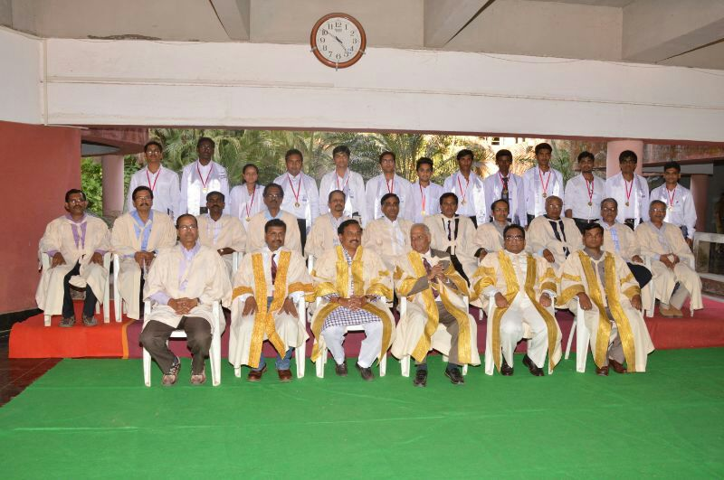 Seventeenth Convocation of Dr. Babasaheb Ambedkar Technological University, Lonere